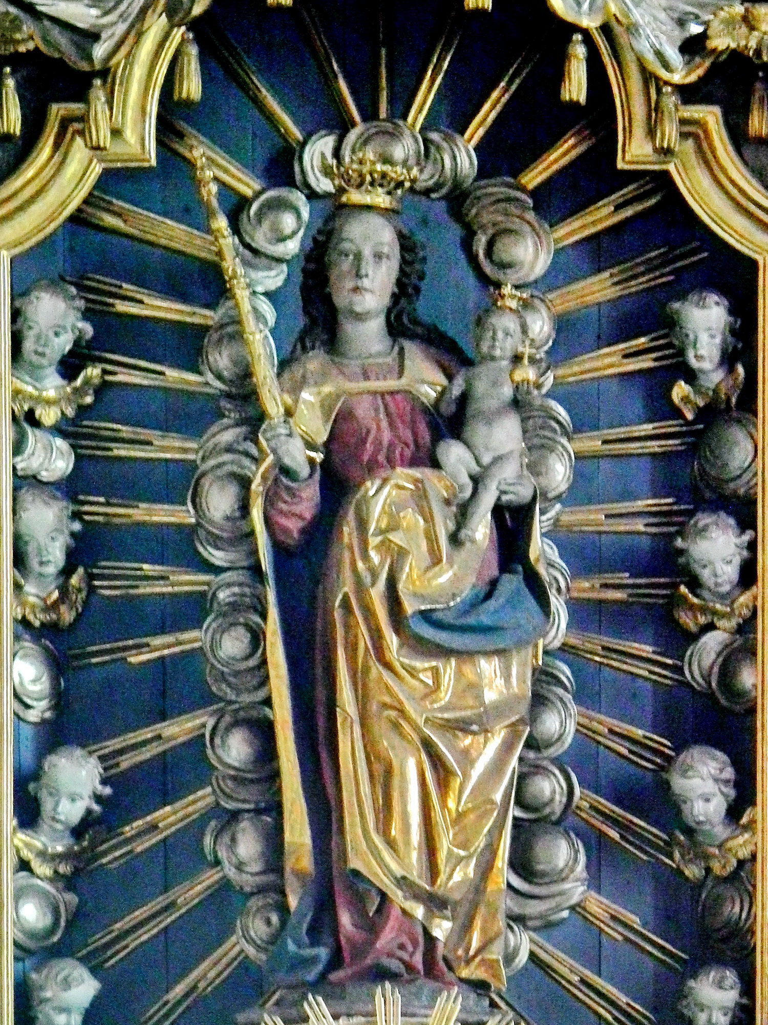 Church of Mariä Geburt Native namePfarrkirche Mariä GeburtLocationHöchberg, Lower Franconia, GermanyCoordinates49° 46′ 51.56″ N, 9° 52′ 33.64″ E